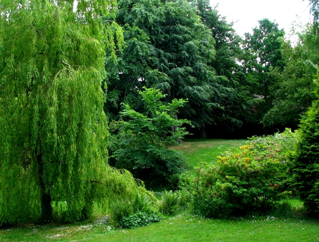 Grovelands Park, Belfast Grovelands park and ornamental gardens is located off Stockman's Lane in south Belfast. Until recently it was used as a base for horticultural apprentices working in the parks and cemeteries section of Belfast City Council. This has now been discontinued but the park remains open for visitors and contains a range of trees, shrubs, conifers, heathers, bedding displays and lawns.